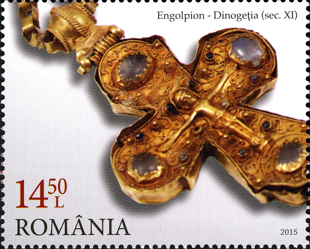 Stamps of Romania, 2015